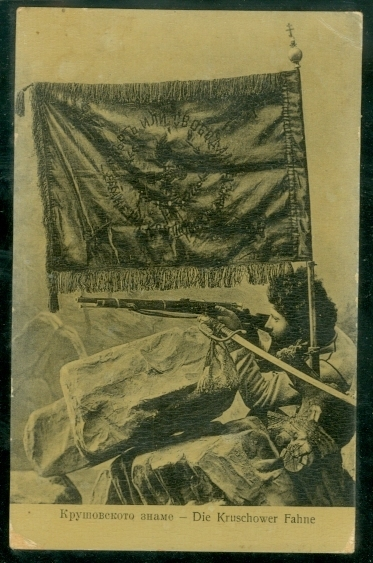 Macedonian insurgent from the town of Krushevo with the flag of local detachment (reconstruction).